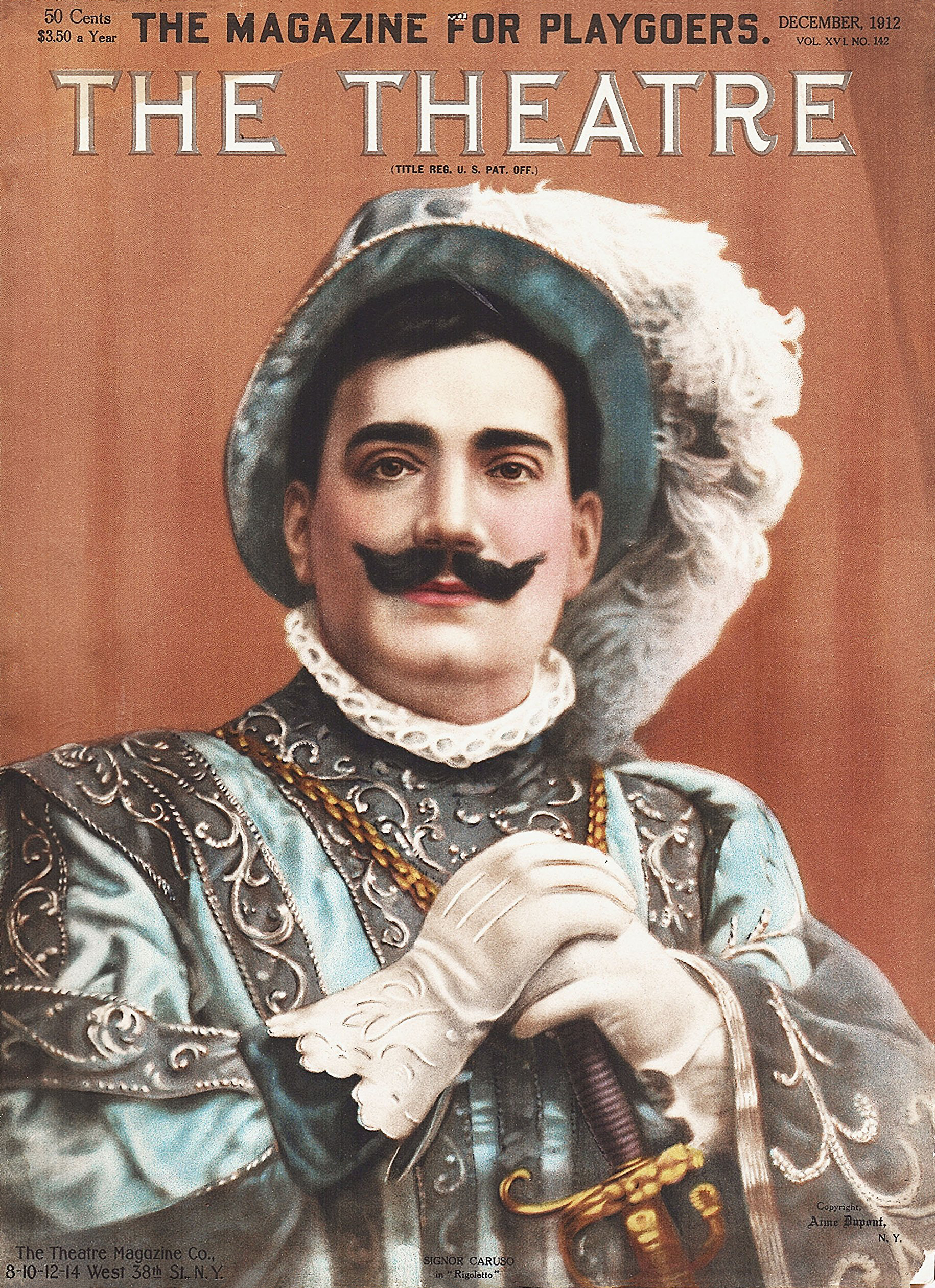 Image of Enrico Caruso as Rigoletto on the cover of The Theatre magazine, Volume XVI, No. 142, December 1912